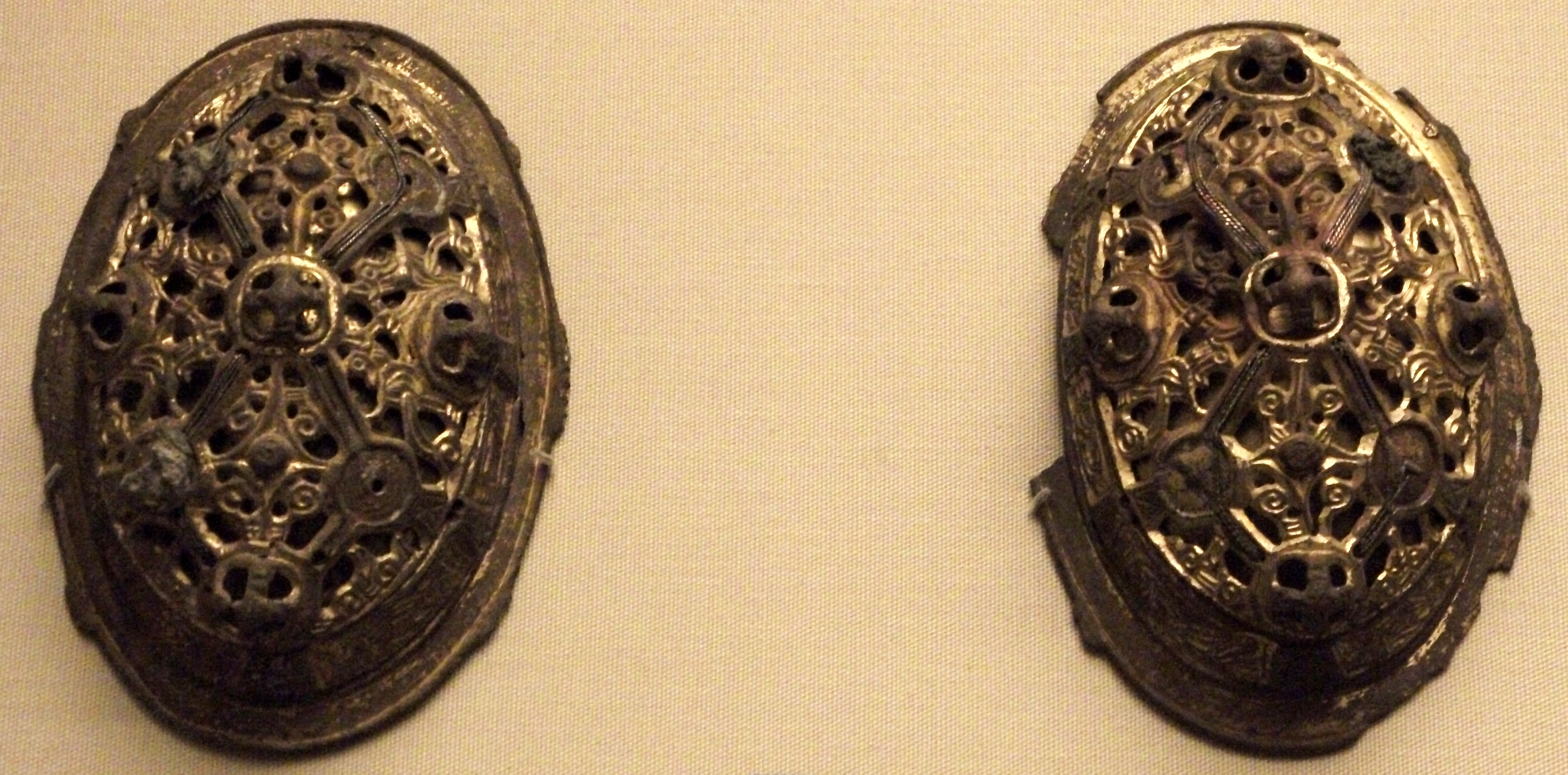 Pair of Viking brooches, for women. British Museum